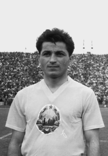 Ion Alecsandrescu with the national team